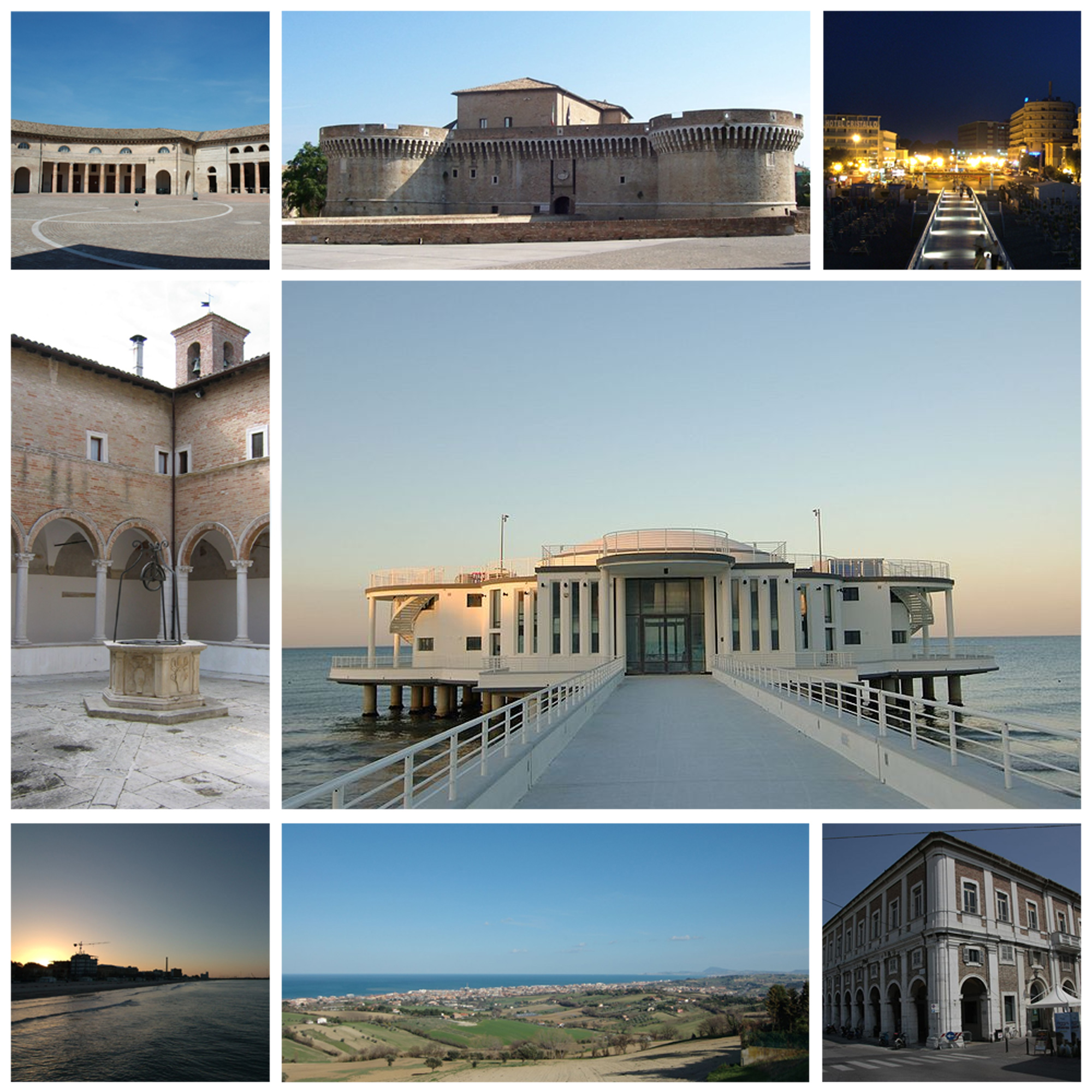 Views of Senigallia. From top left clockwise: Foro "Annonario" Rocca "Roveresca", or "Rocca di Senigallia" Night view of the seaside from the "Rotonda a Mare" "Rotonda a Mare" Portici "Ercolani" View of Senigallia from "Scapezzano", a small town in the hills near Senigallia Sunset view of the beach Convento di "Santa Maria delle Grazie"